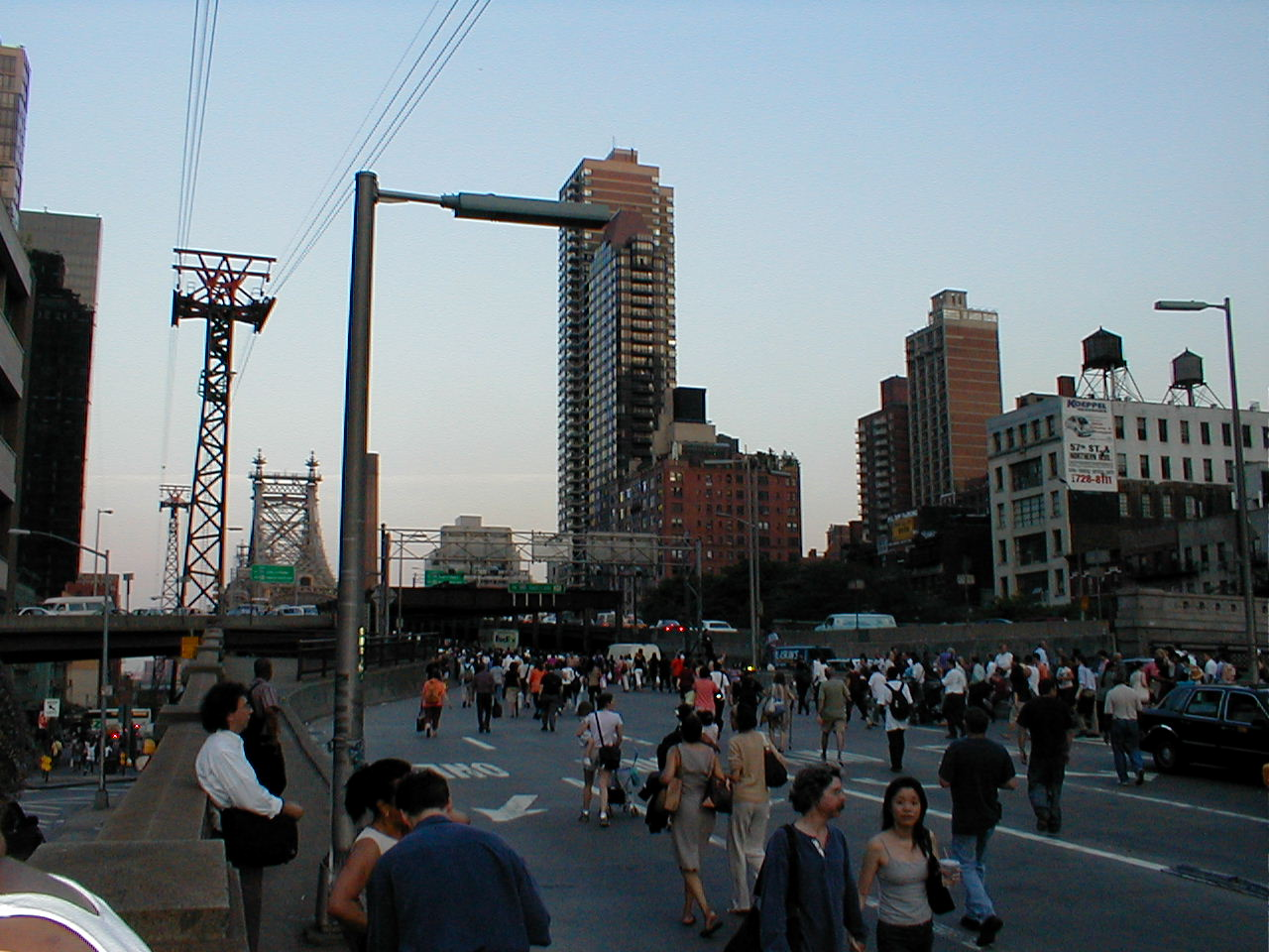 Photo taken in New York City during the 2003 North America blackout.